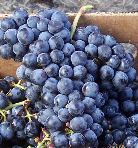 Image of Cab Franc grapes. Photo taken at Mountain Homebrew in Kirkland, WA on October 14th, 2007 from Zodak z650